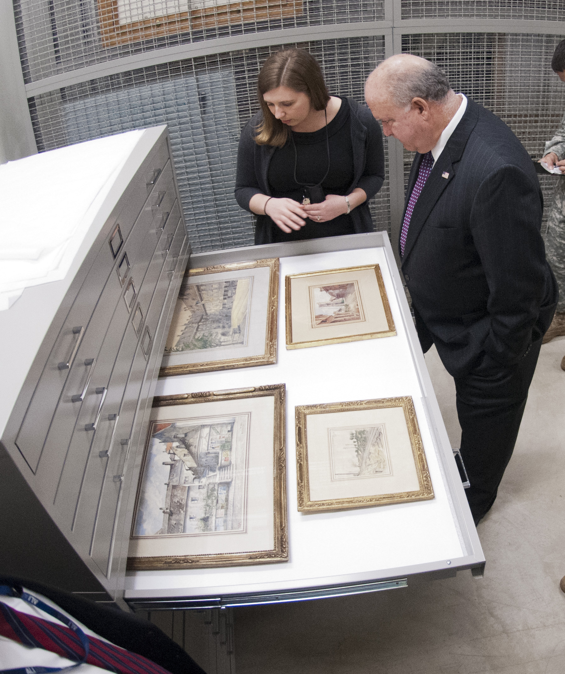 Art Curator Sarah Forgey shows Under Secretary of the Army Joseph W. Westphal four watercolors by Adolf Hitler at the U.S. Army Center of Military History's Museum Support Center Facility, May 30, 2012, at Fort Belvoir, Va. During his time in Vienna and Munich, Hitler supported himself as a street artist. He applied twice to the Vienna Academy of Fine Arts and was twice denied admission. These four watercolors were owned by Heinrich Hoffman, Hitler's personal photographer. Westphal visited the Museum Support Center Facility to gain situational awareness and view the impressive collection of over 16,000 pieces of American history housed in the state-of-the-art facility.